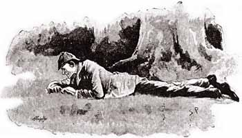 Illustration of the Sherlock Holmes short story The Boscombe Valley Mystery, which appeared in The Strand Magazine in October, 1891. Original caption was "FOR A LONG TIME HE REMAINED THERE."